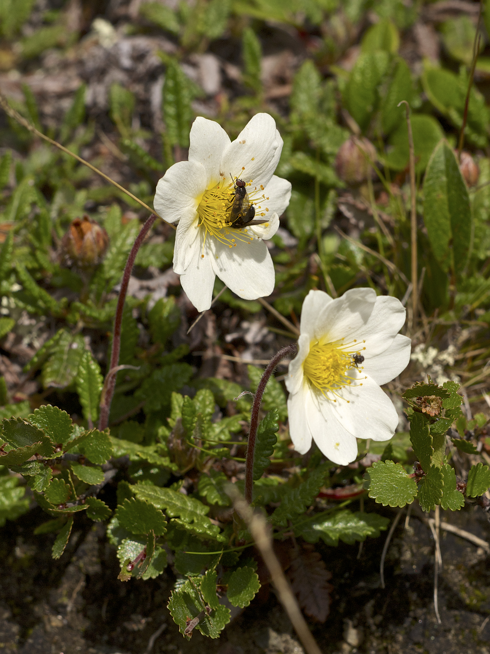 Mountain Avens (Dryas octopetala), Grimsdalen, Rondane National Park, Norway